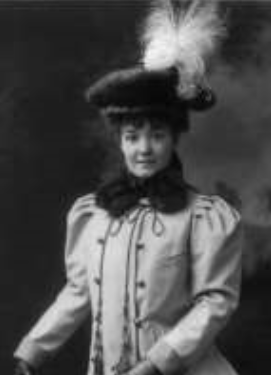 Ann Elizabeth Isham, as a young woman